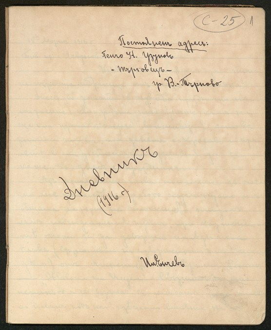 Diary of Iliya Enchev from the First World War. Manuscript. Original. 18.03.1916-12.4.1916